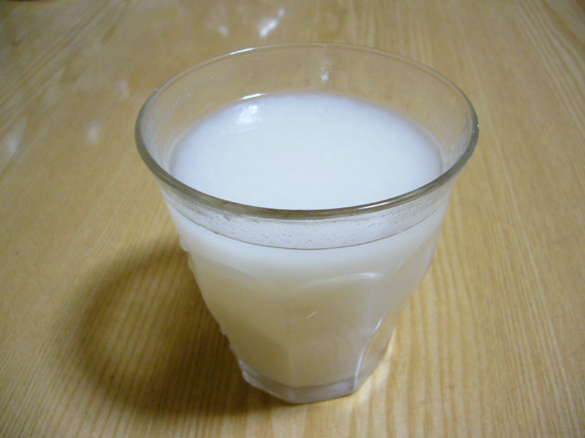 Amazake